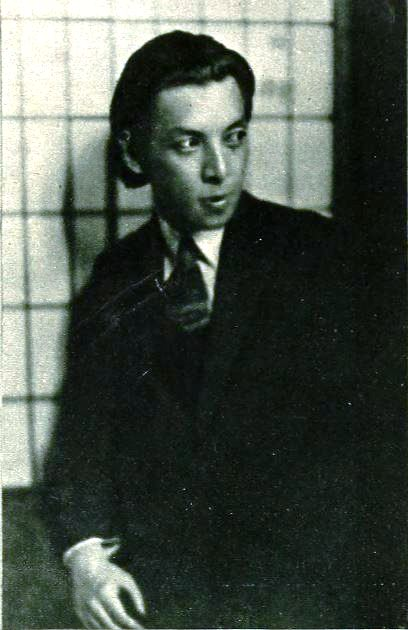 Japanese dancer and choreographer Michio Itō, on page 11 of the November 1919 Shadowland.